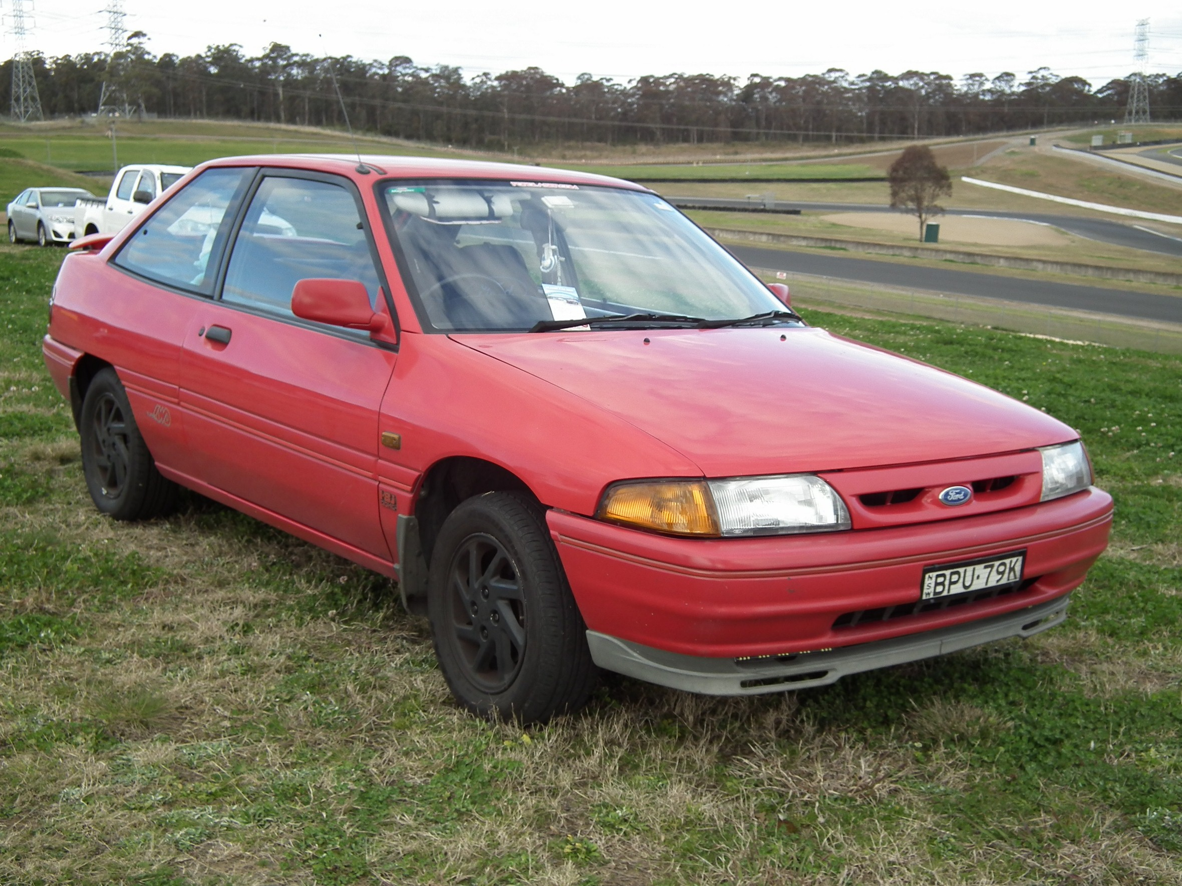 1991 Ford KH Laser TX3 Turbo 4WD hatchback. Taken in the car park at the 2012 New South Wales All Ford Day, held at Sydney Motorsport Park (formerly Eastern Creek Raceway).